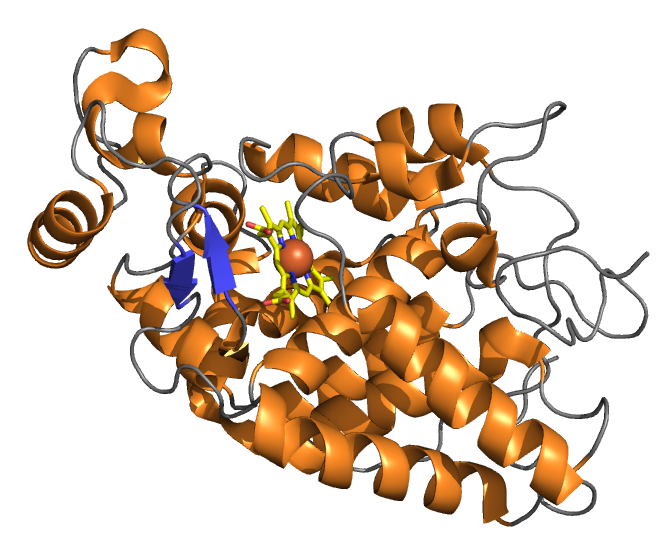 Horseradish Peroxidase